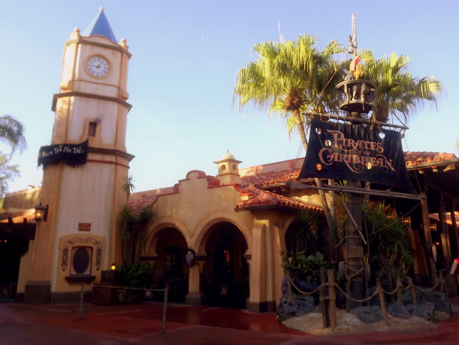 Pirates of the Caribbean at Walt Disney World's Magic Kingdom Park